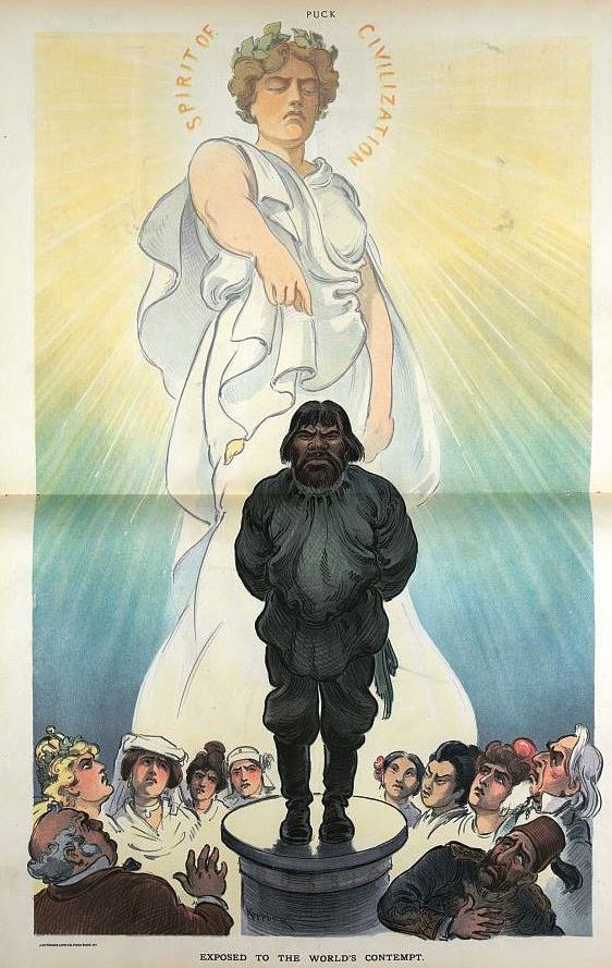 Exposed to the world's contempt.Illustration shows a larger-than-life "Spirit of Civilization" pointing with contempt to a man on a pedestal labeled "Russia"; standing around the pedestal are John Bull, Uncle Sam, and symbolic representatives of other nations.